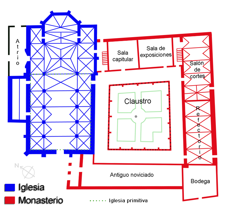 Plan of Nuestra Señora de la Soterraña church (blue) and the monastery (red) in Santa Maria la Real de Nieva, Segovia, Spain. In green the old church.